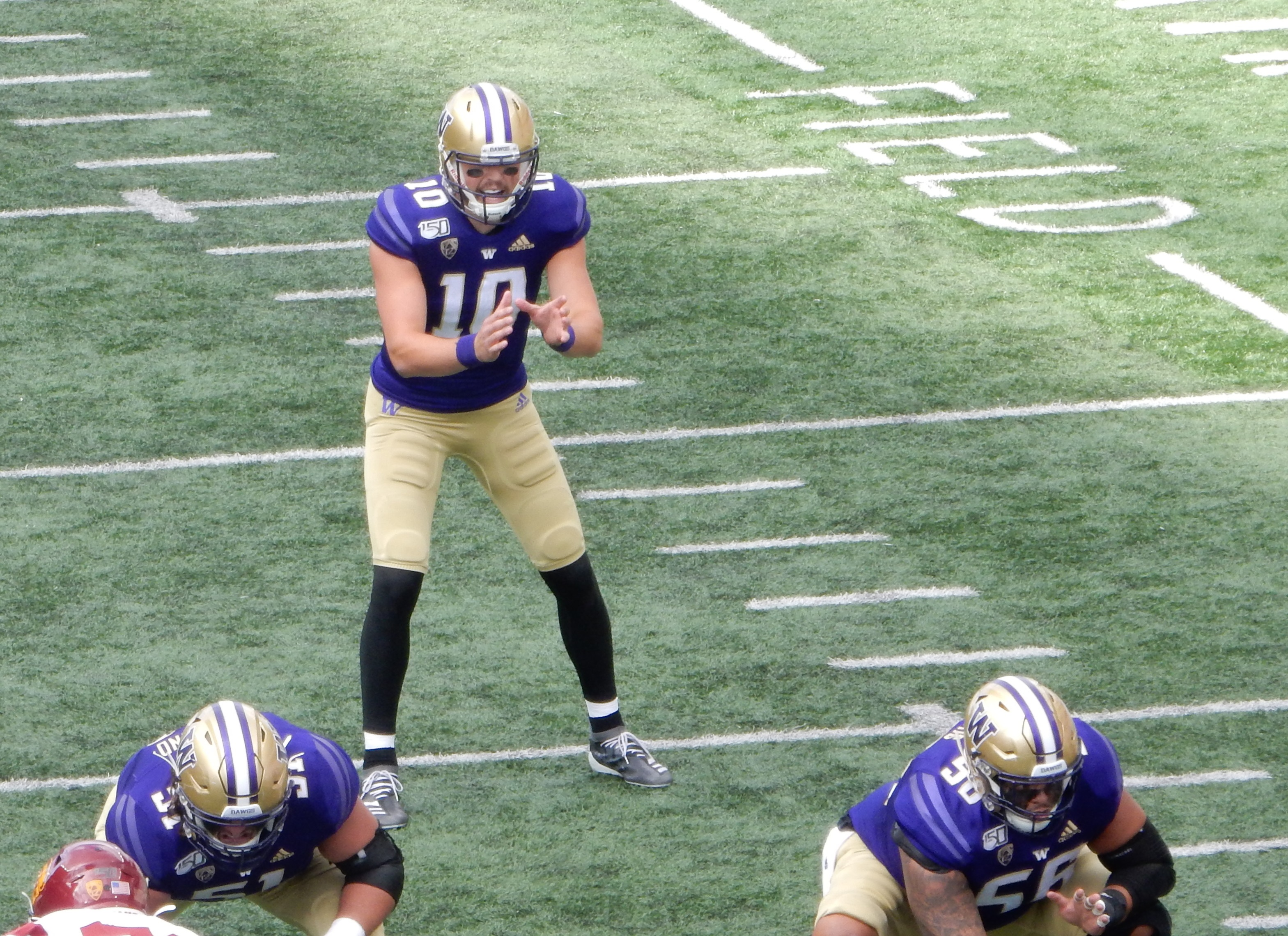 Jacob Eason At Quarterback vs USC on 9/28/2019